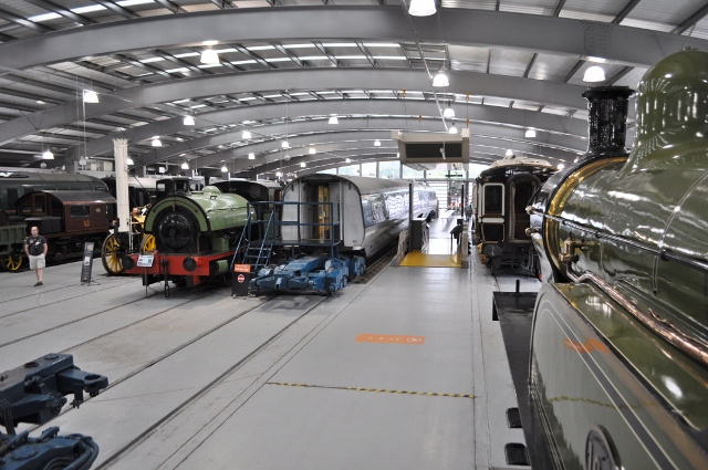 Shildon Railway Museum, Data from Geograph: Description: As seen from London and South Western Railway Class T3 No. 563. ICBM: 54.624168250523, -1.6307377661285 Location: (about 1 km from) near to Shildon, County Durham, Great Britain.